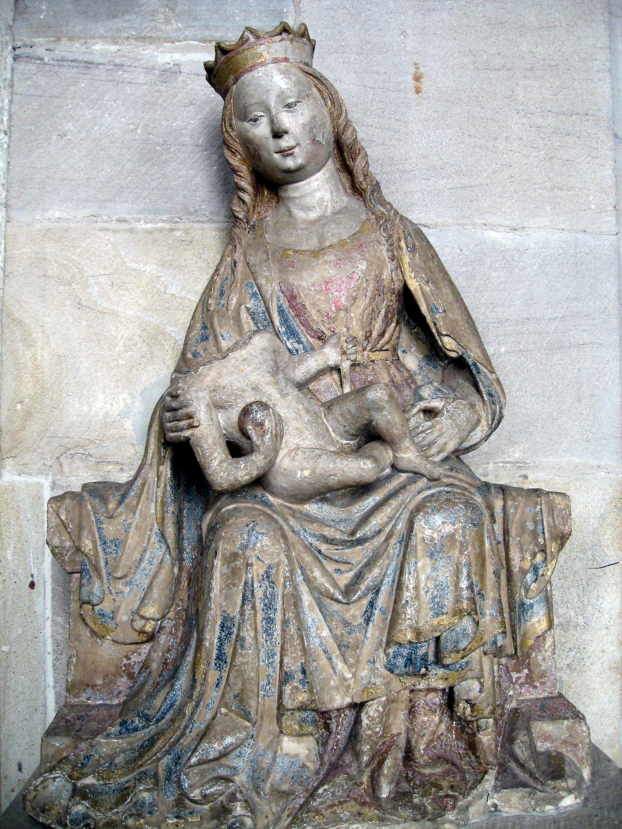 Germany, Dortmund, Marienkirche, southern part, gothic sculpture of Madonna and Child